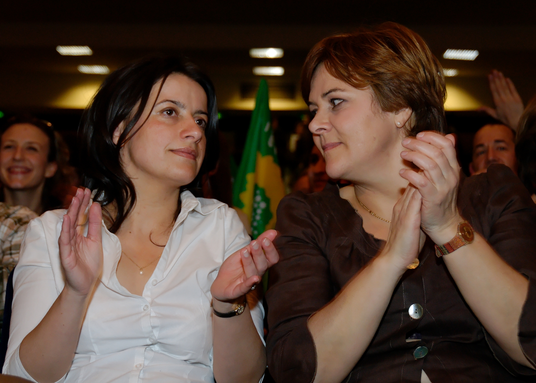 Cécile Duflot (left) and Dominique Voynet (right) at a meeting held on Apr. 5, 2007 by the French Greens Party at the Palais de la Mutualité in Paris.